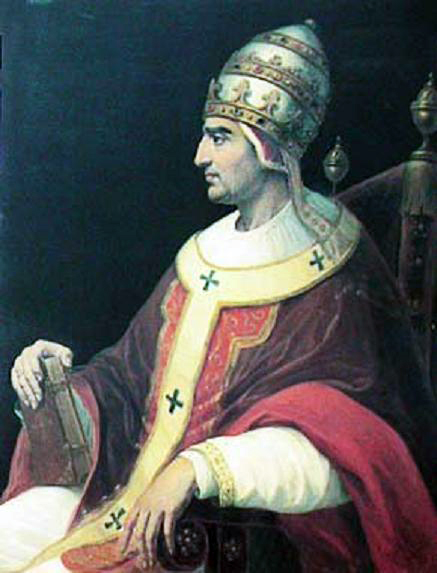 Portrait of pope Gregory XI